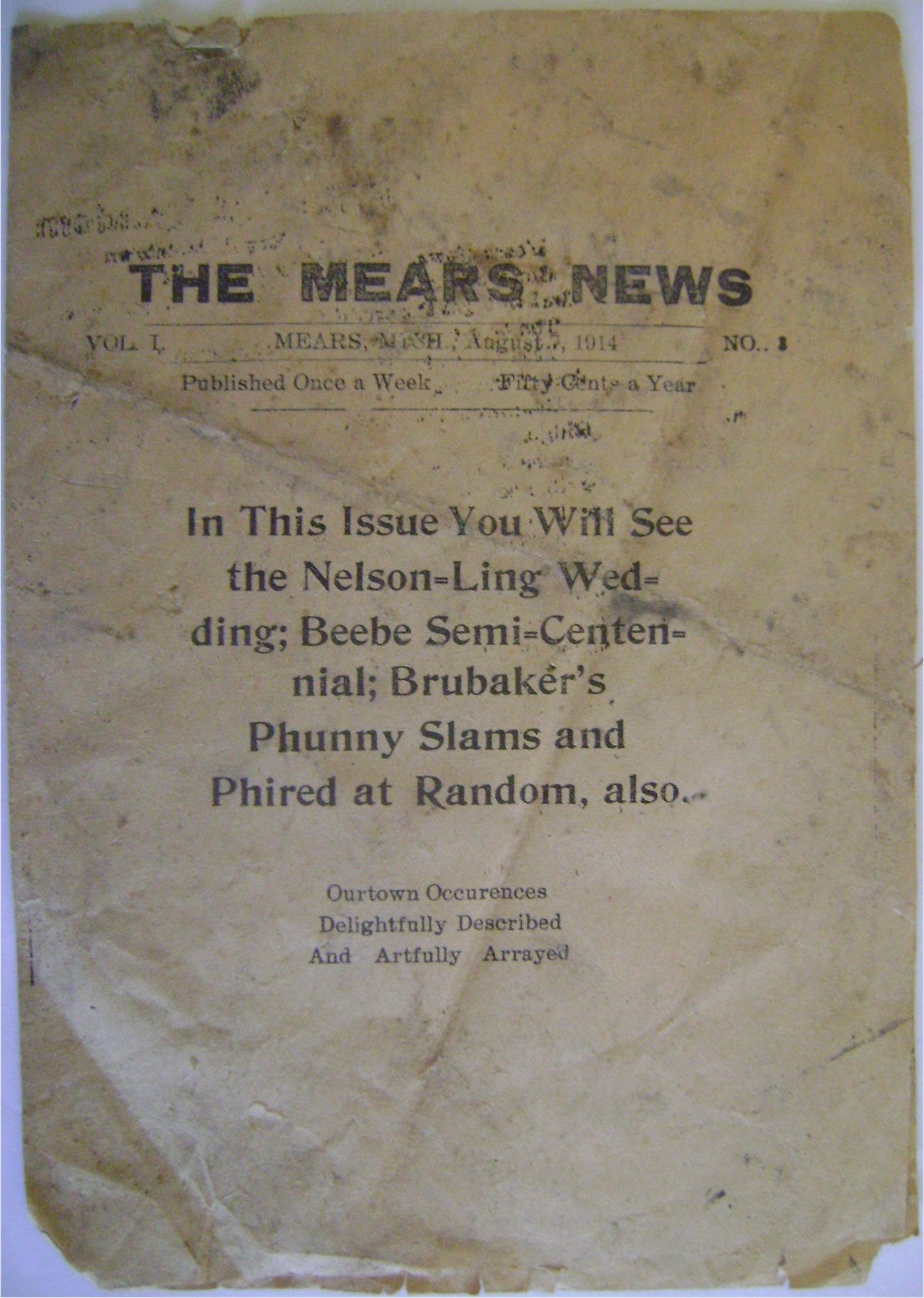 The Mears News August 7th 1914 newspaper front cover